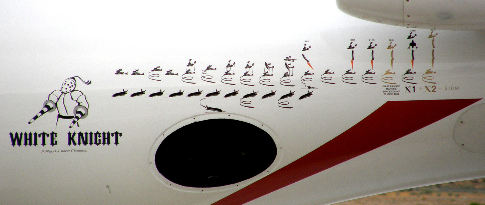 Scaled Composites' White Knight mission stickers